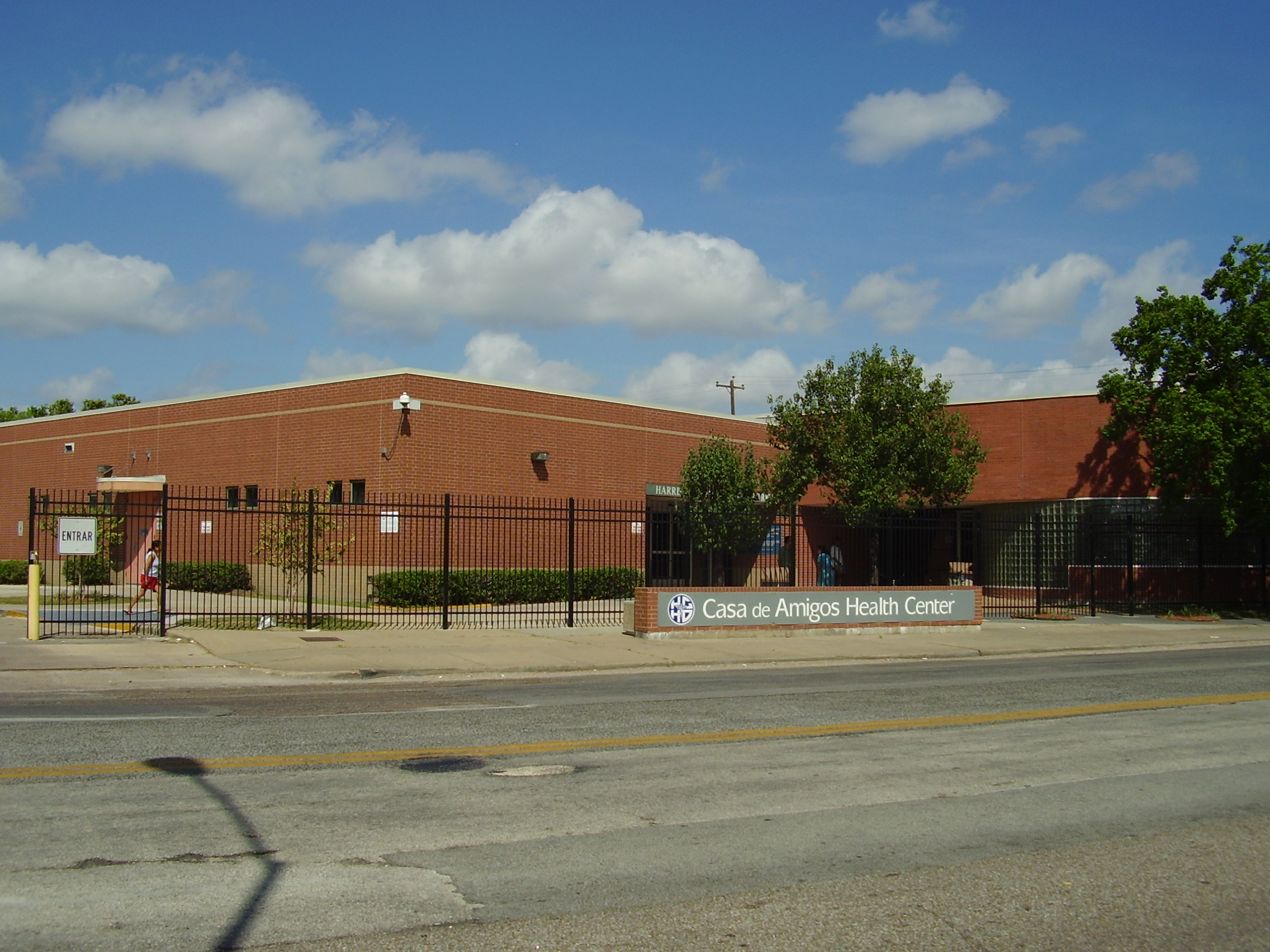 Casa de Amigos Health Center - "Casa de Amigos" means "House of Friends" in Spanish